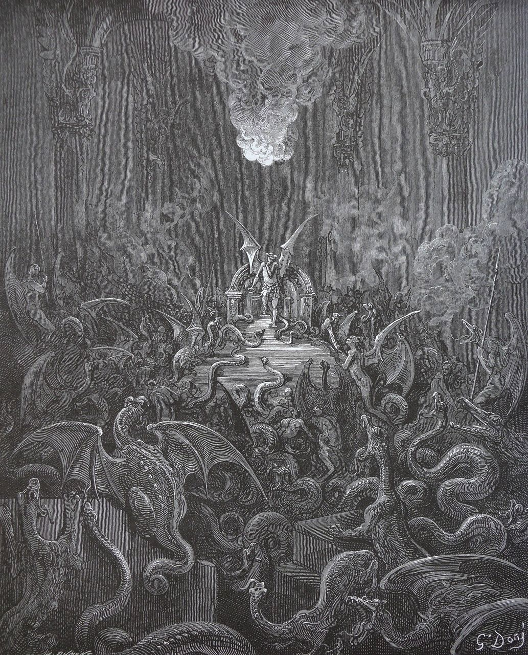 Illustration for John Milton’s “Paradise Lost“ by Gustave Doré